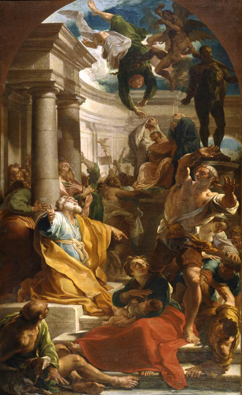 Painting by Vincent Cannizzaro of Reggio Calabria